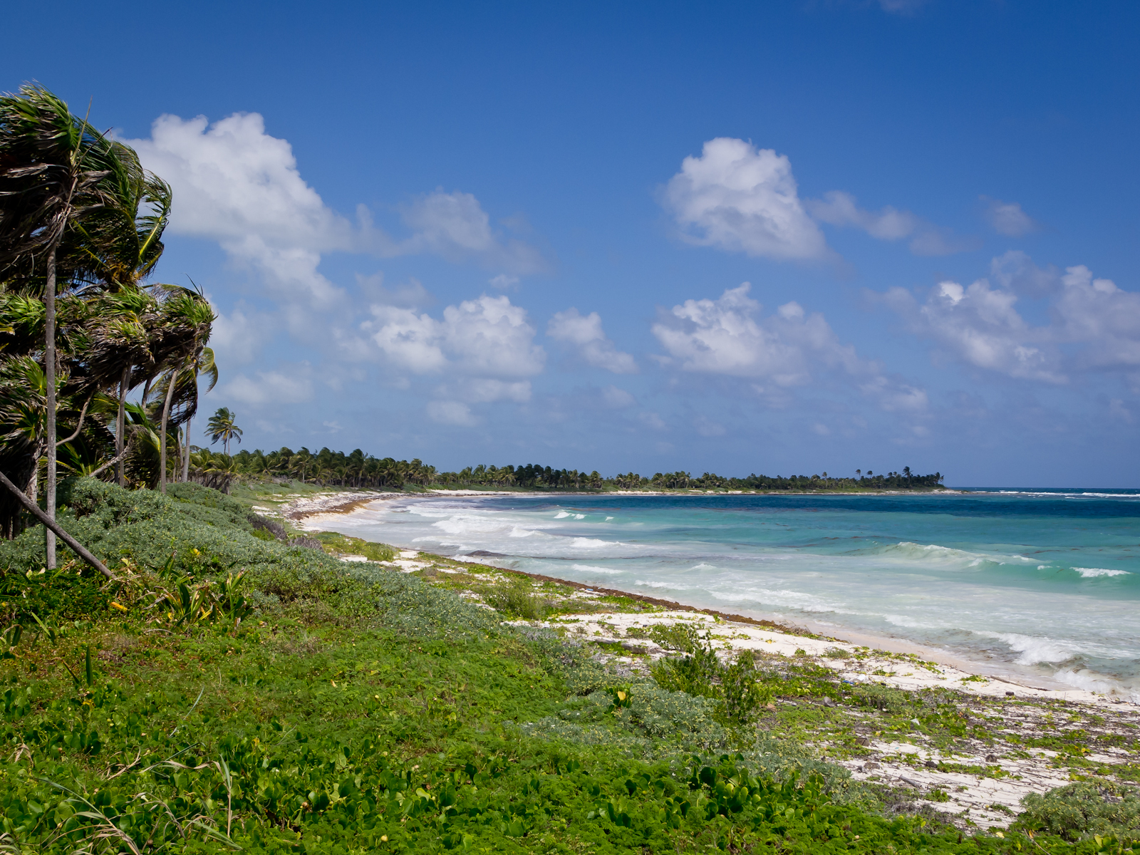 Looking north across a bay in the Sian Ka'an Biosphere Reserve. Photo taken with an Olympus E-5 in Quintana Roo, Mexico. Cropping and post-processing performed with Adobe Lightroom.